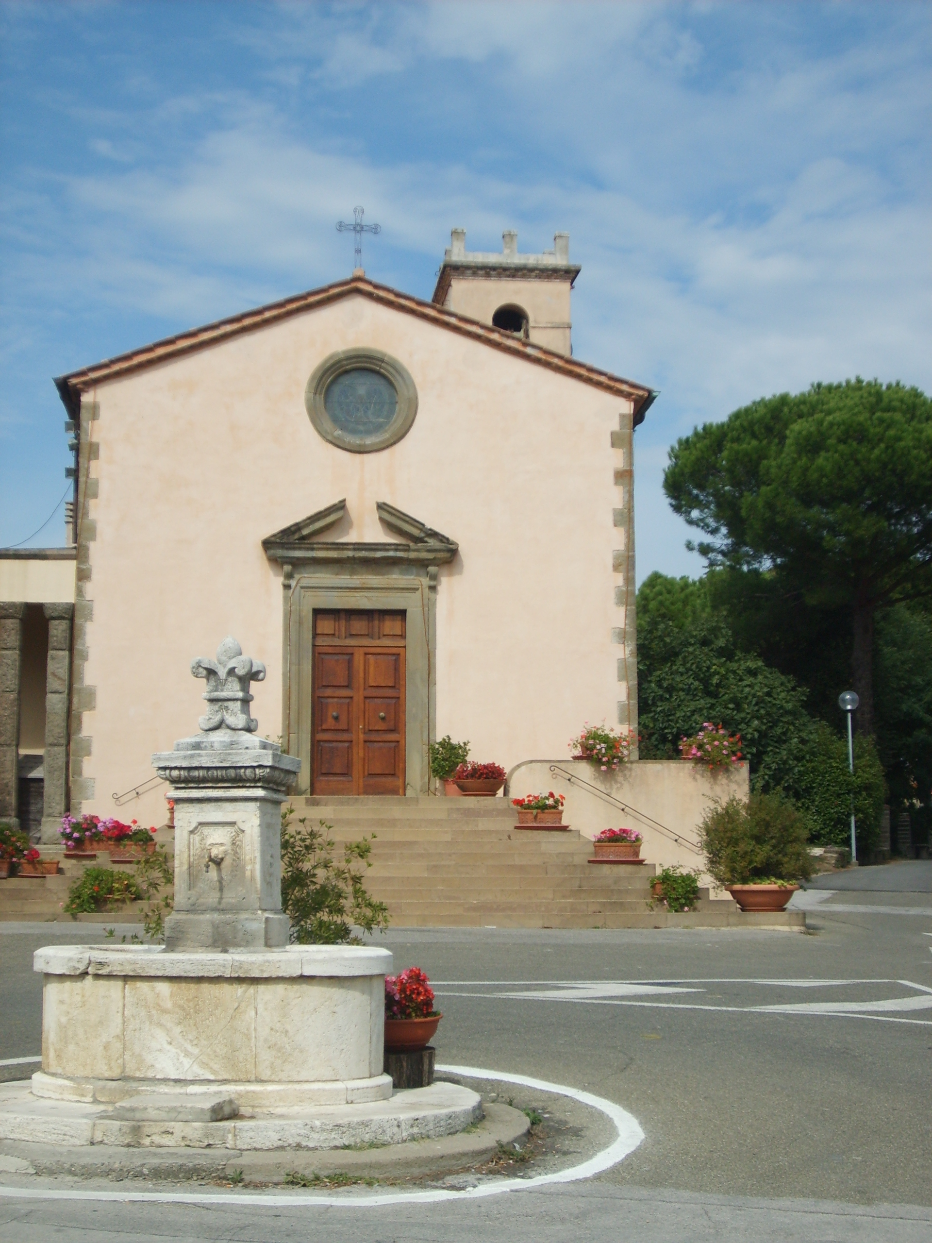 Church of San Giuseppe, Poggio Murella (Grosseto)